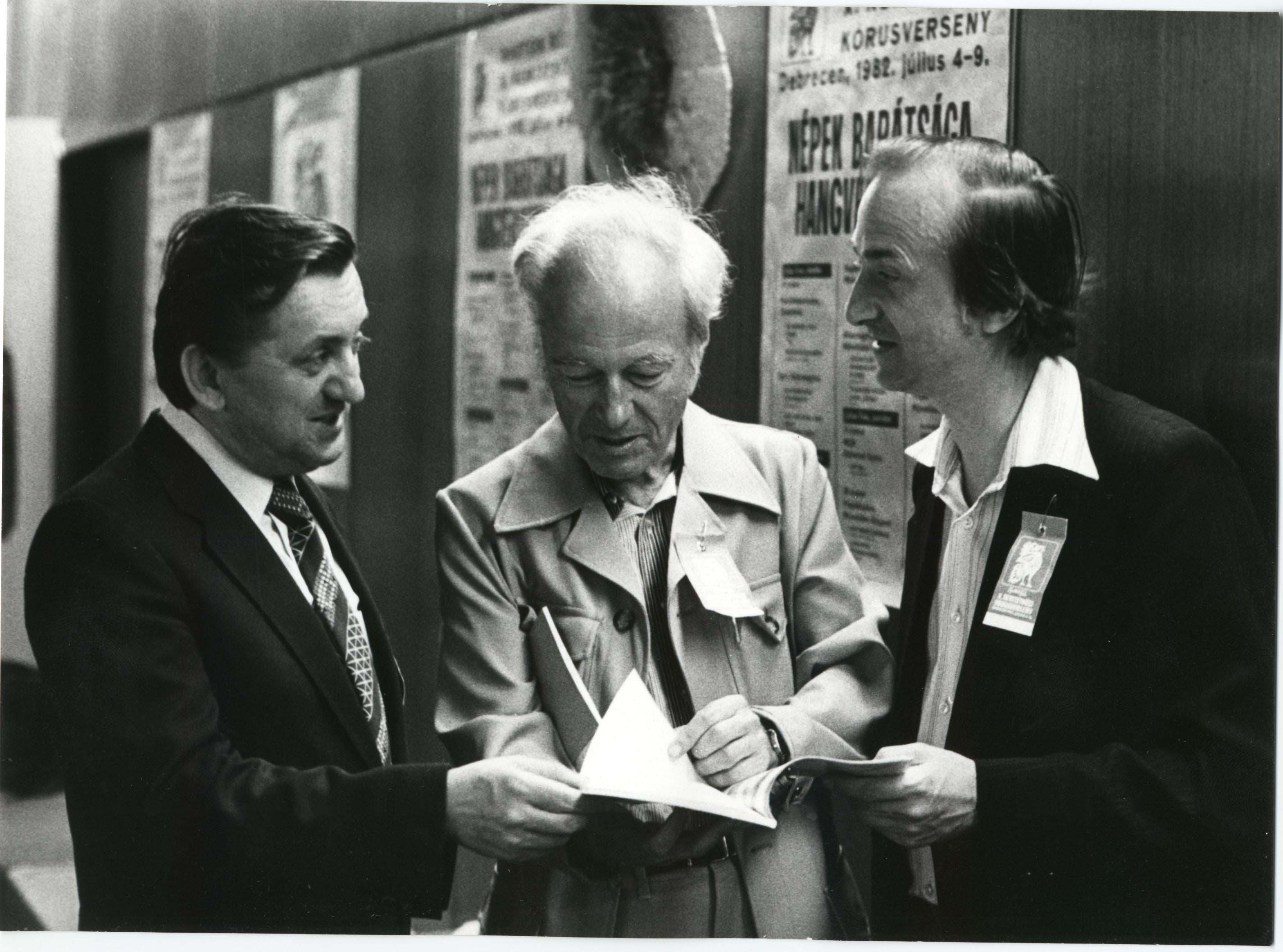 Sándor Szokolay, jr. Béla Bartók and Árpád Balázs in Debrecen at the X. International Béla Bartók Choir Festival